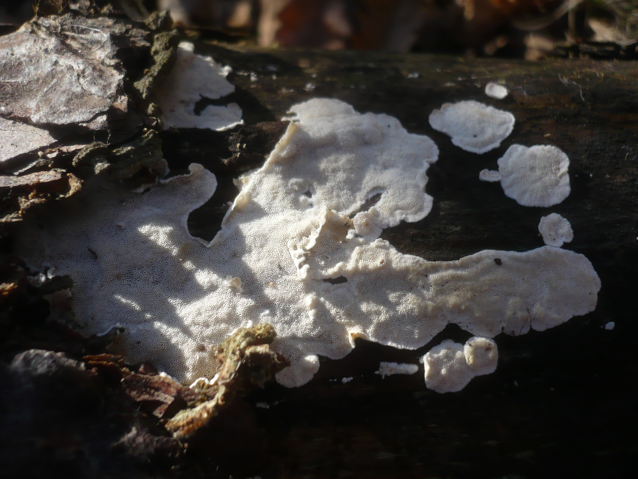 Skeletocutis carneogrisea A. David Image location: Weiden bei Rechnitz, Bezirk Oberwart, Burgenland, Austria Recognized by sight: on Pinus sylvestris, characteristic is pore color after bruising “carnal-greyish” Used references Based on microscopic features: allantoid spores 4×1-1,5 µ, monomitic hyphal system For more information about this, see the observation page at Mushroom Observer.